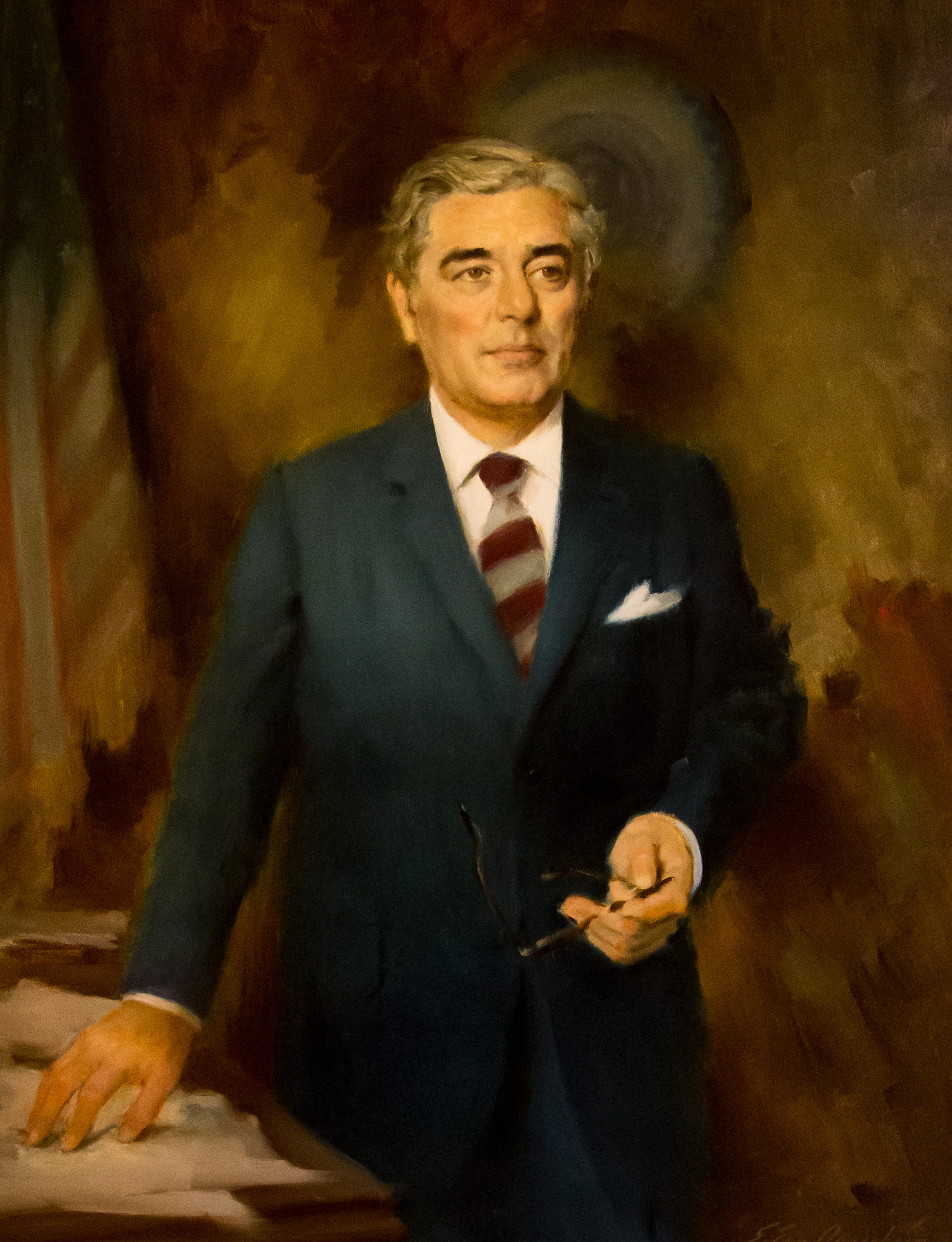 RI Governor Frank Licht 1969-1973. Official portrait in the Rhode Island State House.